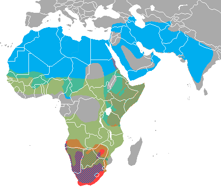 Created from constituent taxa. Crocuta - olive overlay Hyaena - blues Proteles - magenta red